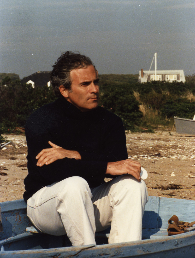 George H. Richmond (Uploader's husband on honeymoon). was an educator who introduced the concept of the "microsociety" to American primary education. George was a painter, teacher, and an educator.